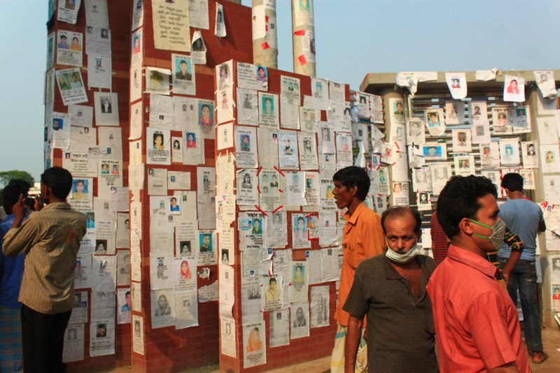 2013 Savar building collapse. Board with photos of missing people, posted by relatives. Photos taken by Sharat Chowdhury, permission obtained from him for use in Wikipedia under CC attribution.